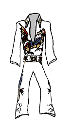 Chinese Dragon (Elvis)